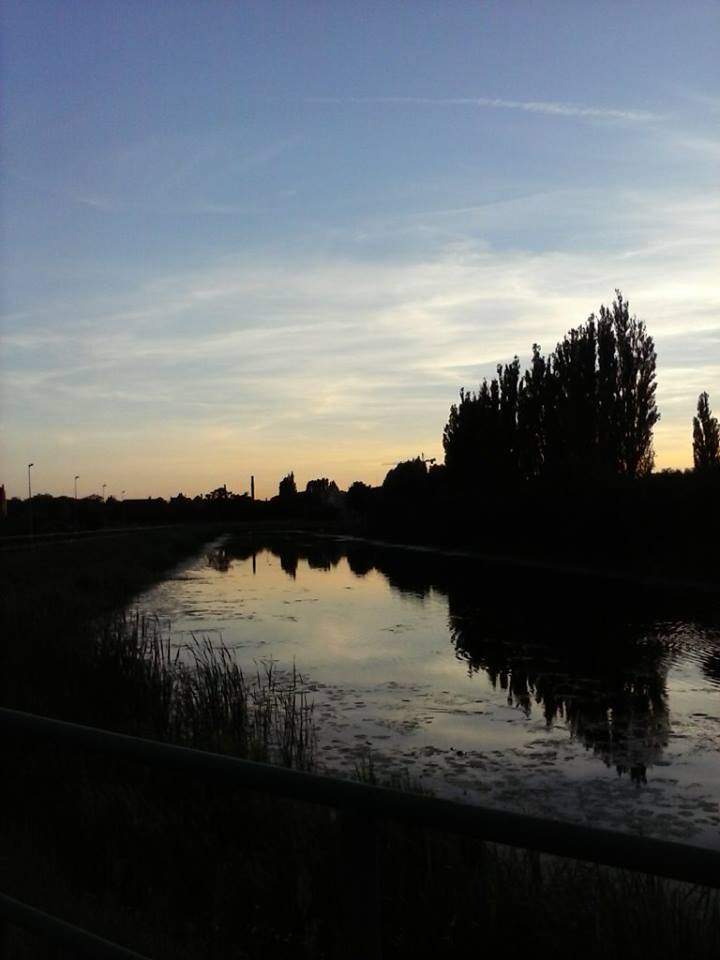 Olszynka